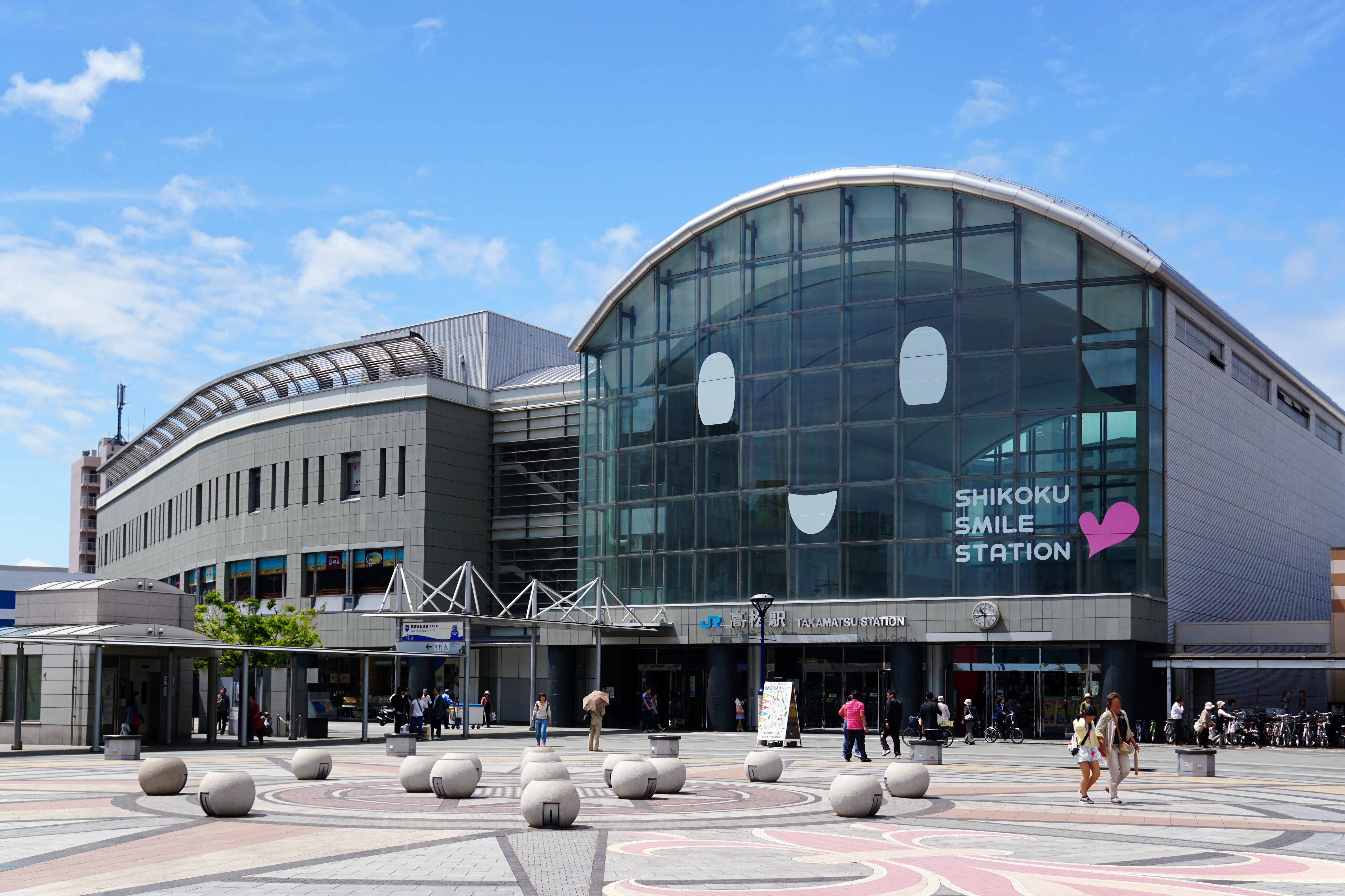 Takamatsu Station in Takamatsu, Kagawa Prefecture, Japan